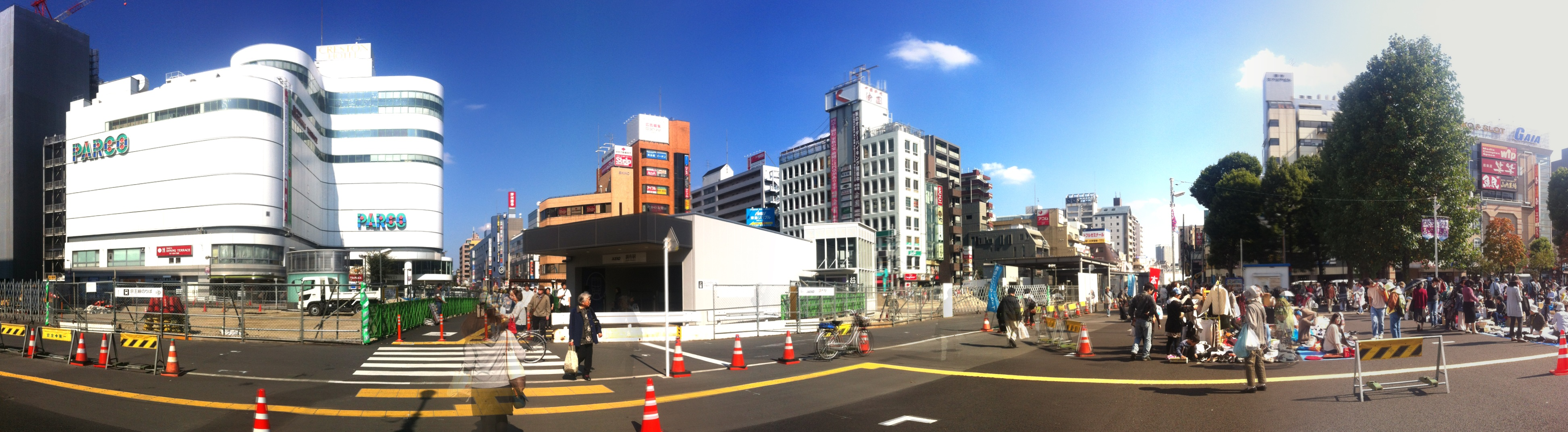 Chofu Station